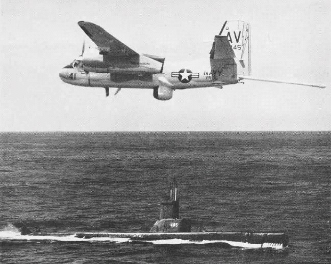 A U.S. Navy Grumman S2F-3 Tracker of Air Anti-Submarine Squadron 36 (VS-36) "Grey Wolves" passing the Tench-class submarine USS Sirago (SS-485). VS-36 was assigned to Carrier Anti-Submarine Air Group 58 (CVSG-58) aboard the U.S. anti-submarine aircraft carrier USS Randolph (CVS-15) for a deployment to the Mediterranean Sea from 7 June to 31 August 1962.